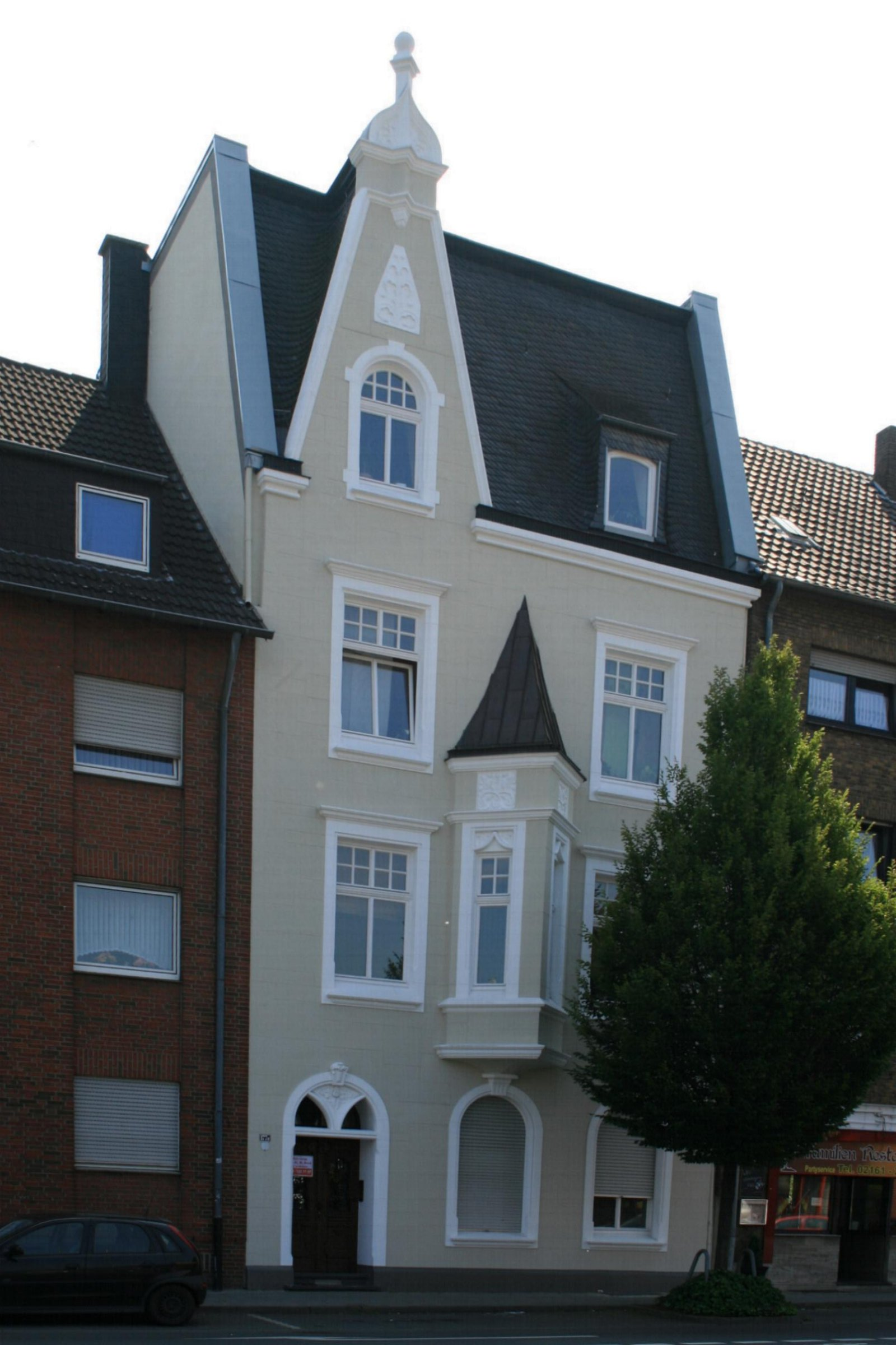 Cultural heritage monument No. R 016 in Mönchengladbach